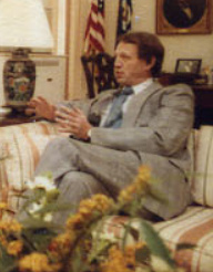 Harry George Barnes, Jr.